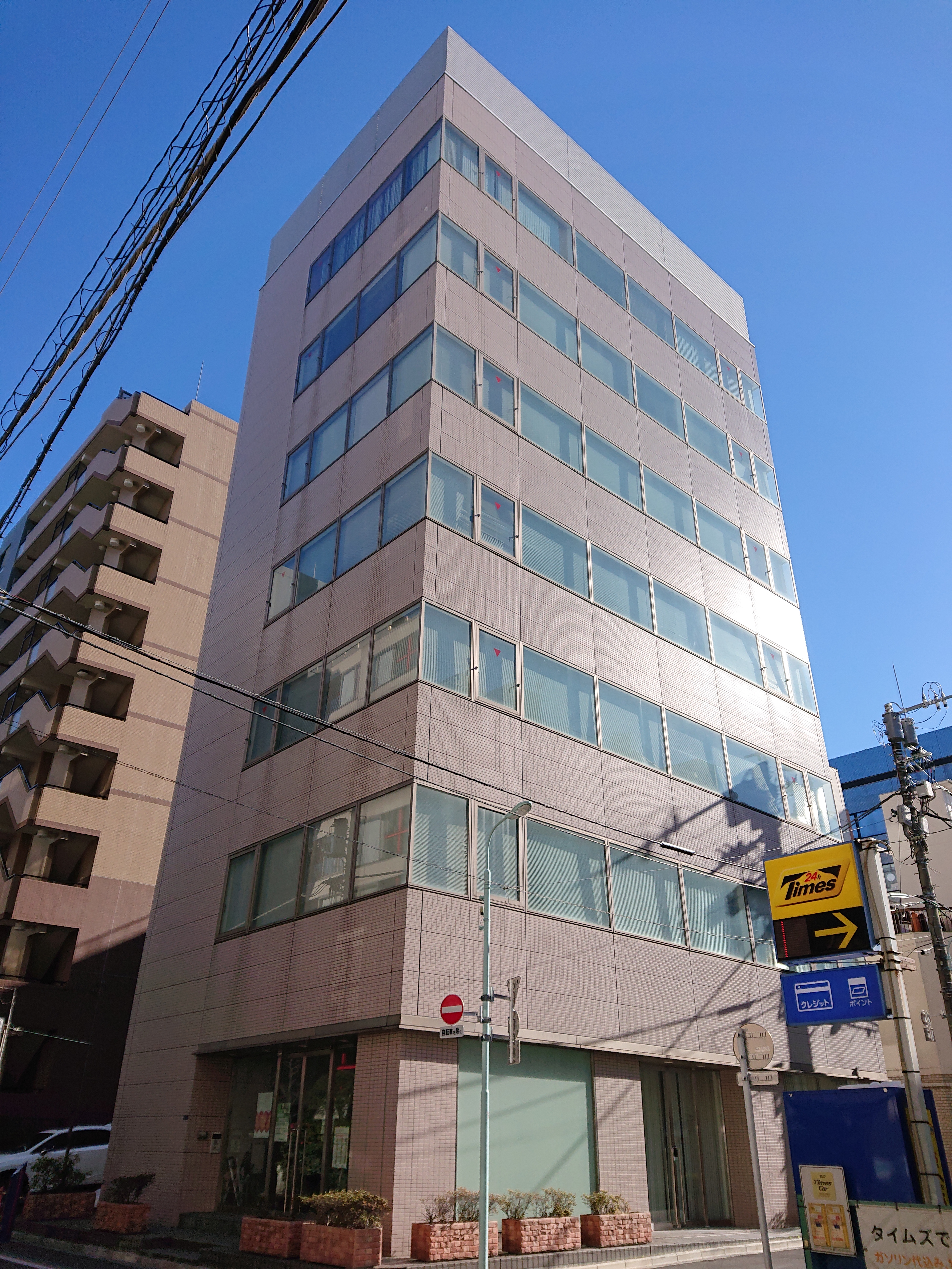 The headquarters of Buraku Liberation League (部落解放同盟), located at 1-7-1 Irifune, Chuo, Tokyo, Japan